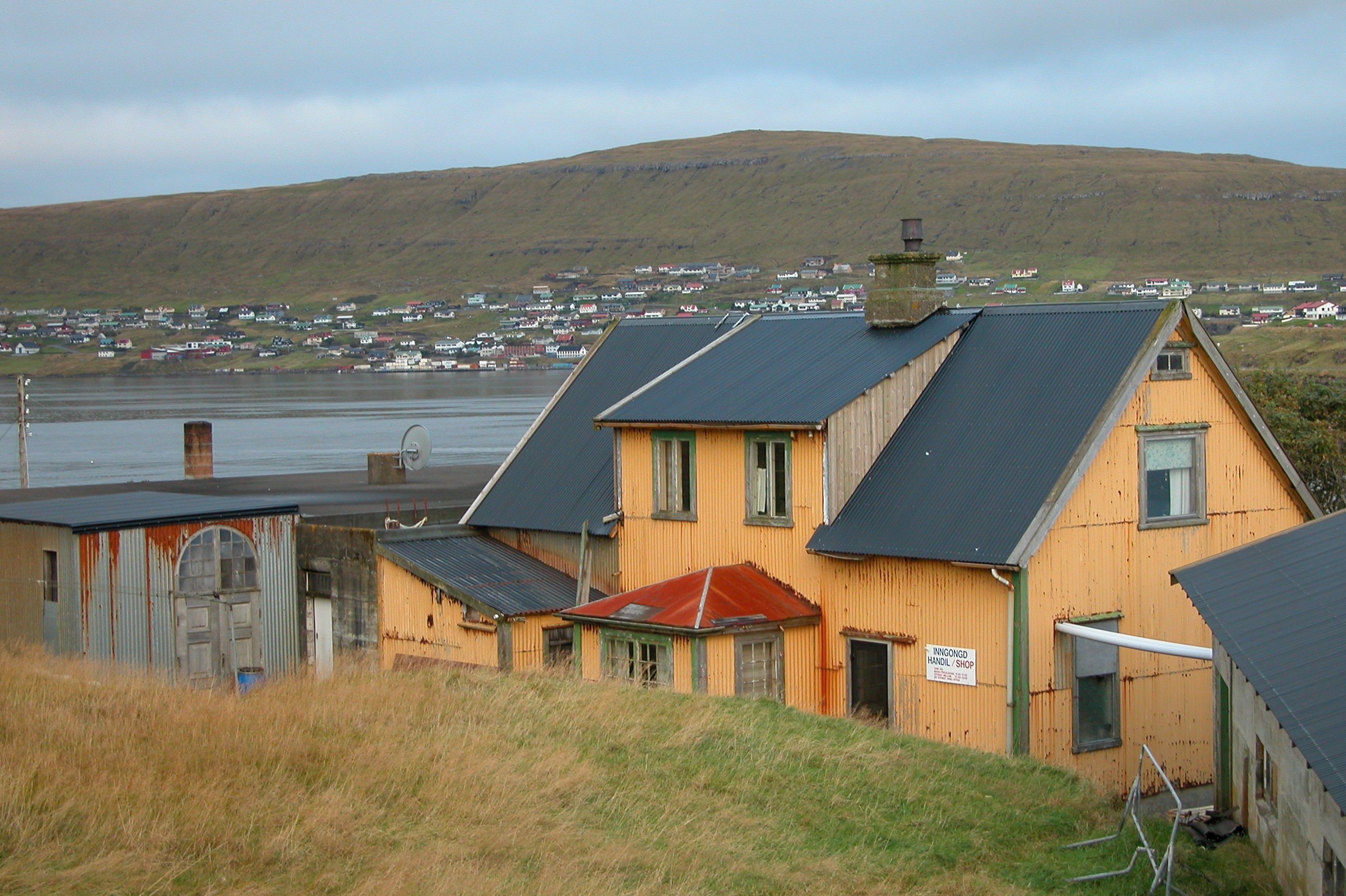 Strendur at the Skálafjørður, Eysturoy, Faroe Islands.